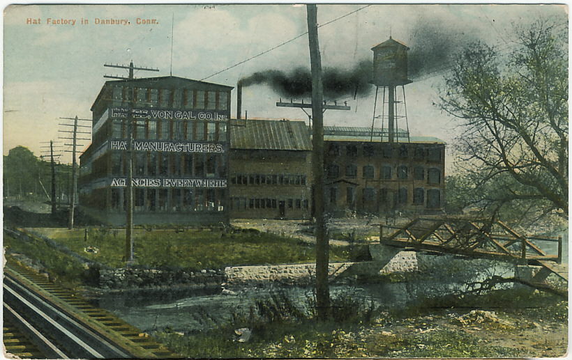 Postcard picture of hat factory in Danbury, also known as "Hat City" for its former hat industry; postmarked 1911; there appears to be trash in the foreground